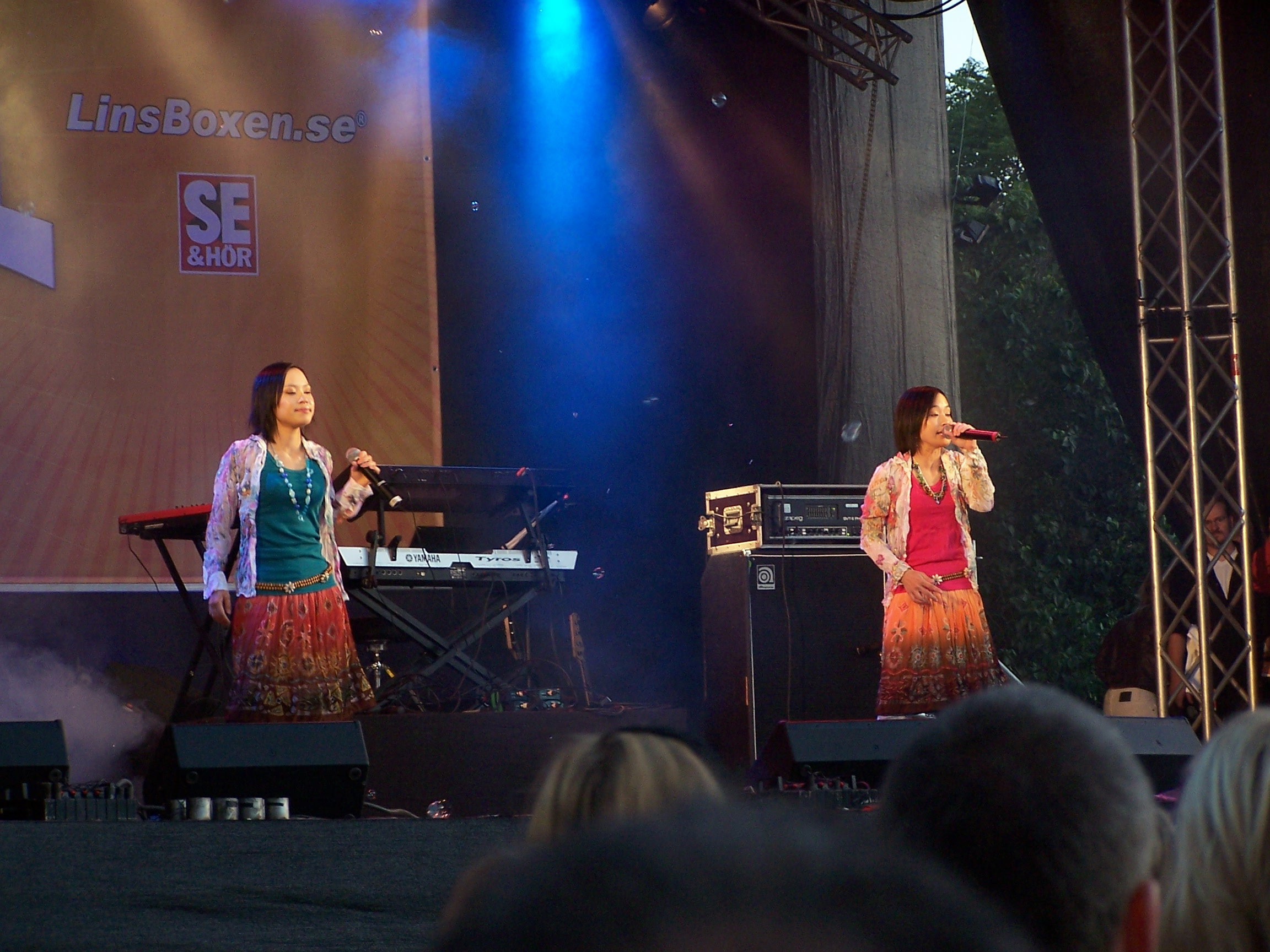 Twill on stage in Karlskrona, Sweden, during RIX FM Festival 2005